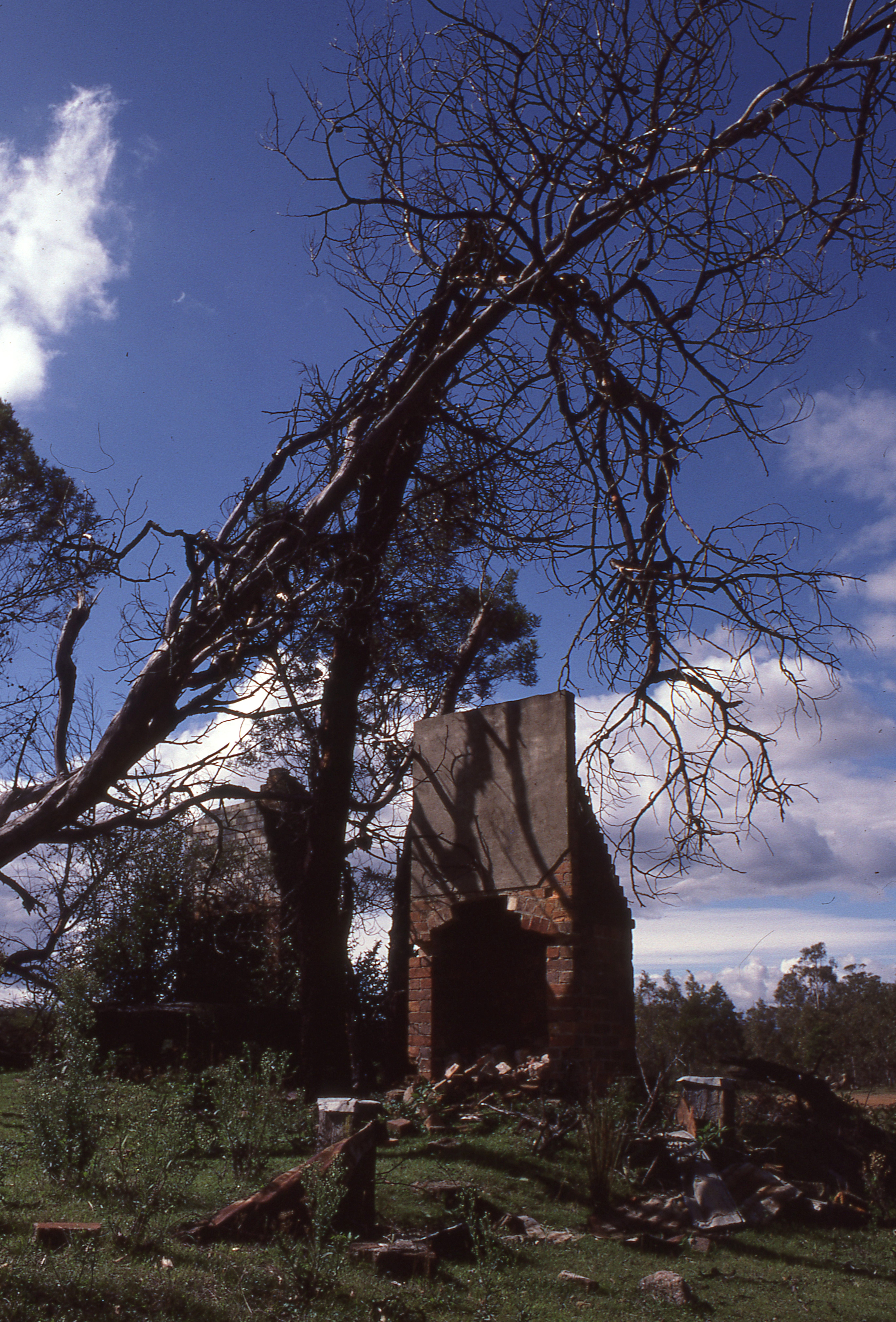 Ruins, Yerranderie, southern Blue Mountains NP, NSW, Australia (Kodachrome slide scanned at 6400)